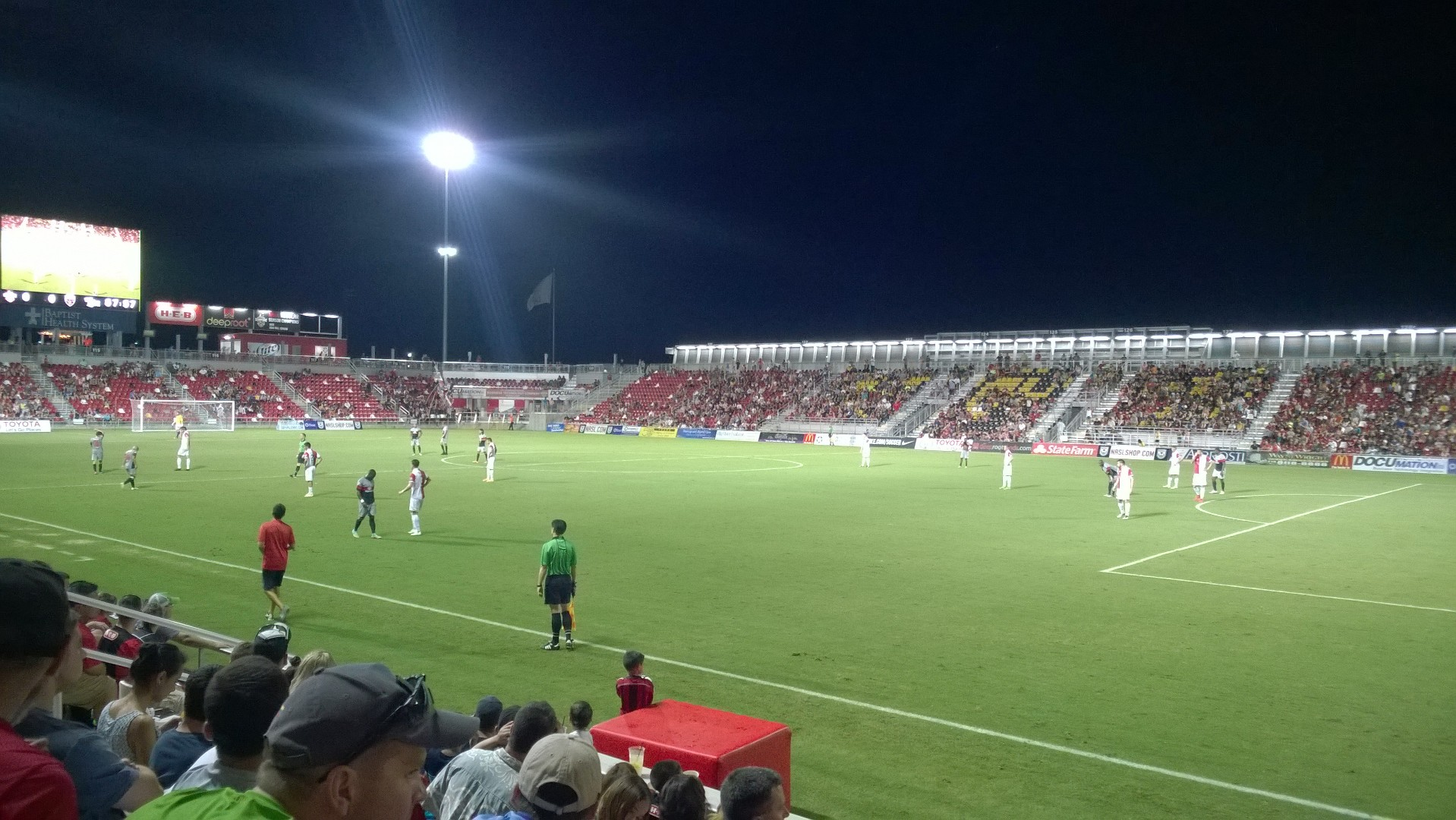 San Antonio Scorpions NASL game at Toyota Field